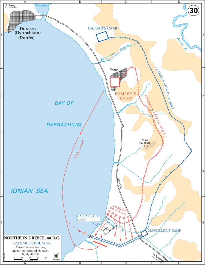 ancient map for Caesar's operation against Pompey near Dyrrhachium in 48 BCE